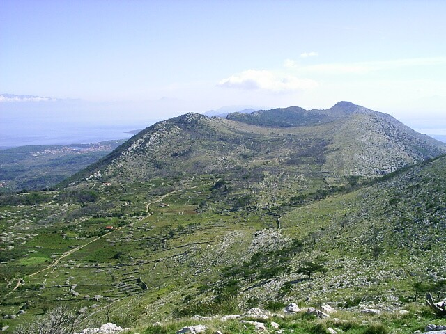 Hvar Island, Croatia